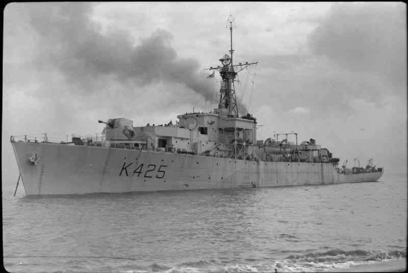 Photograph of British frigate HMS Loch Dunvegan.